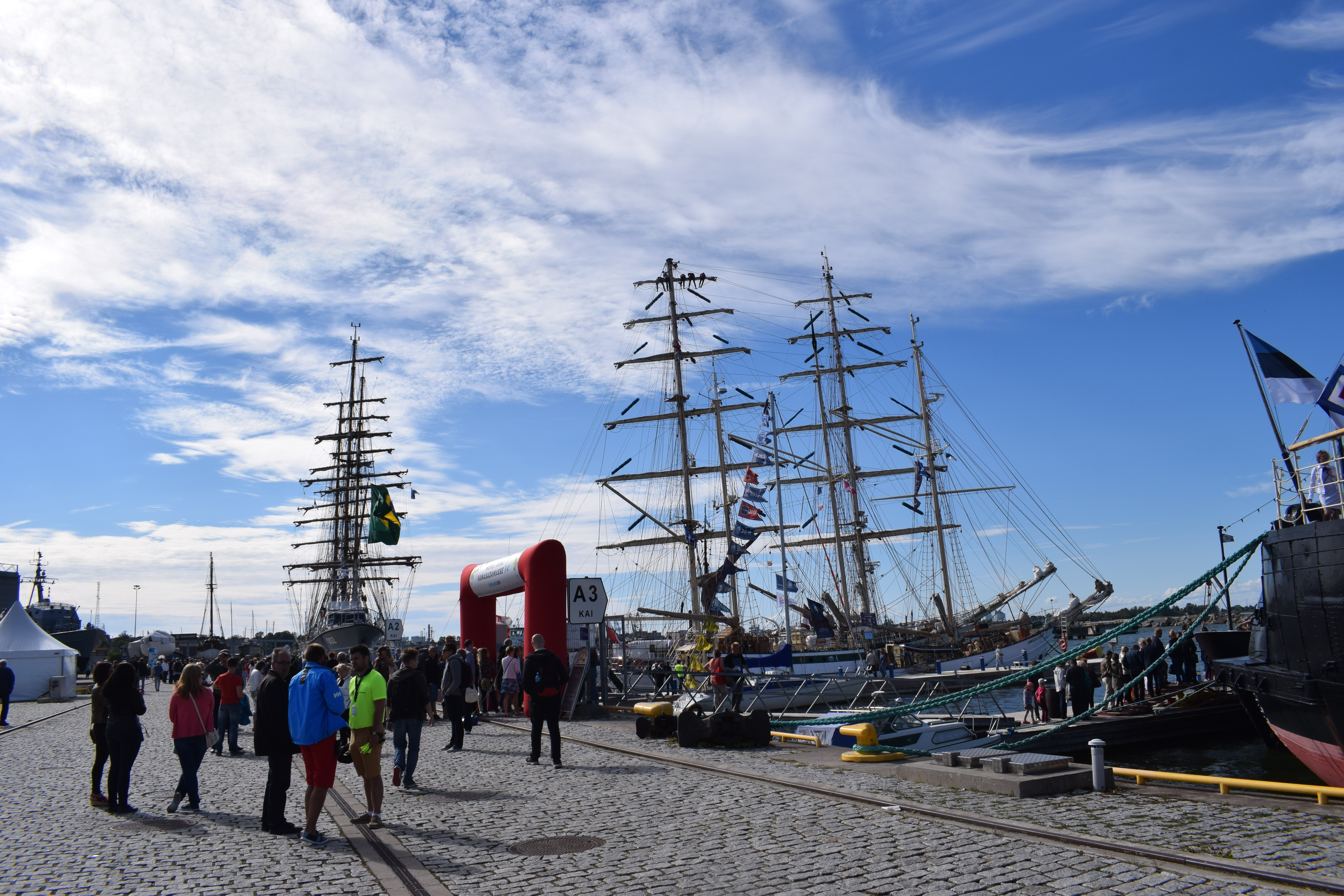 Ships on Lennusadam